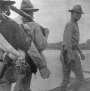 Photograph of U.S. Army officer and Medal of Honor recipient Cornelius C. Smith as a captain with the 14th U.S. Cavalry in the Philippines during 1904.